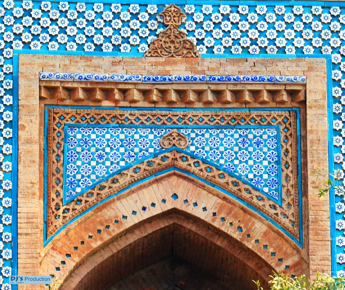 Tomb of Shah Rukn-e-Alam This is a photo of a monument in Pakistan identified as the PB-105